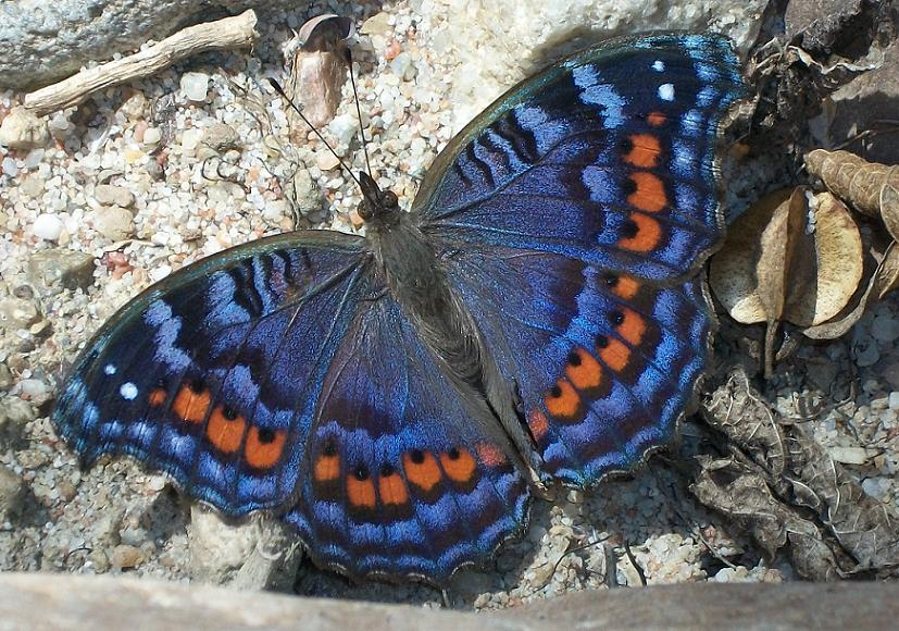 Precis octavia from inland of Port Shepstone, KwaZulu-Natal